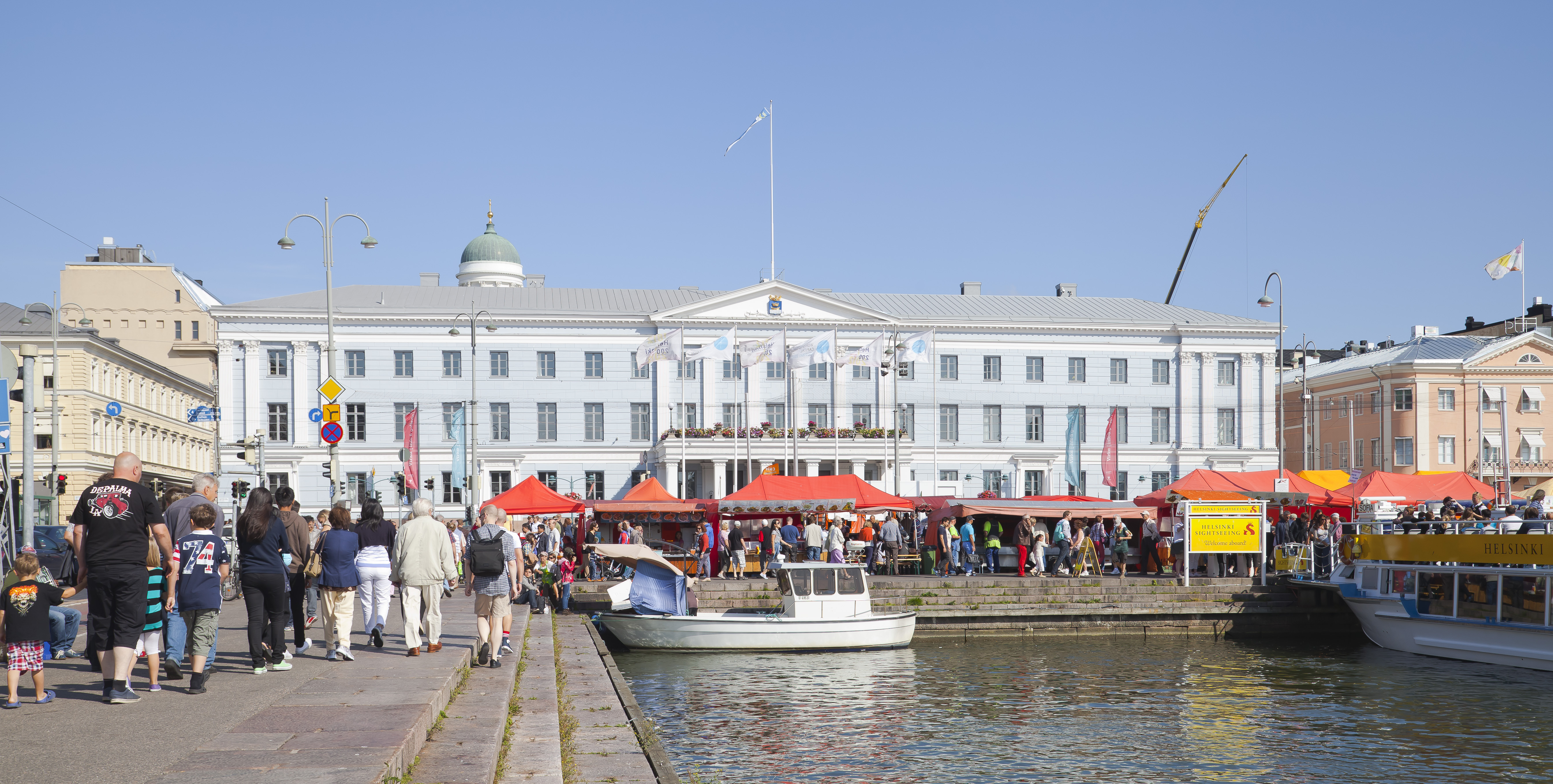 South Harbour, Helsinki, Finnland